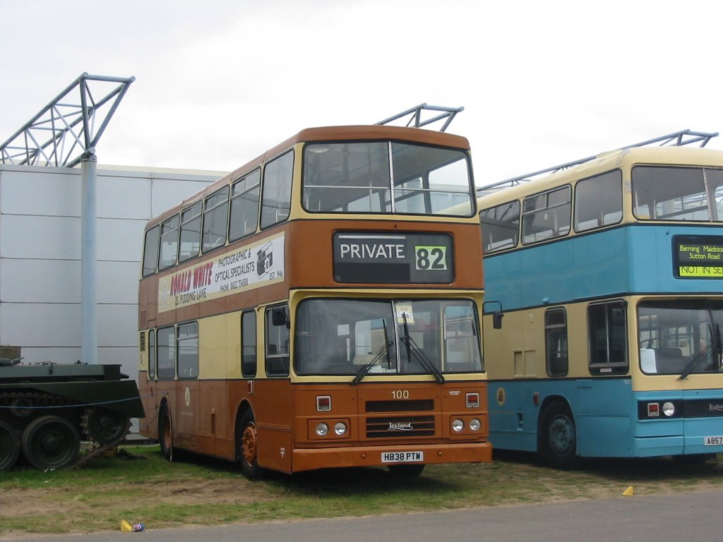 Nu-Venture bus 100 (reg. H838 PTW), pictured at the Showbus 2004. It's wearing a special livery commemorating the centenary anniversary of municipal transport in Maidstone, representing the ochre livery used for a time by trolleybuses and motor buses of Maidstone Corporation Transport. To the right is Nu-Venture bus T857 (A857 SUL) also wearing centenary livery, representing the fiesta blue scheme used on buses after the ochre scheme.